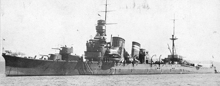 Heavy cruiser Furutaka probably 1930-1932. Heightened forward funnels dates this picture after 1926/27 modification, missing take off platform dates this picture after 1929/30 and missing AAA platform on the side of the bridge and long cover of bridge ventilation dates this picture before 1932. Česky: Japonský těžký křižník Furutaka počátkem 30. let: Zvýšený přední komín (1926/27) a absence startovací plošiny (1929/30) na jedné straně a absence 120mm kanónů a 13,2mm kulometů (1932/33) na straně druhé datují fotografii do období 1930 až 1932. Dva bílé pruhy na komíně, identifikující Furutaku jako druhou loď 5. sentai (戦隊 ~ divize), by mohly datování upřesnit na období mezi 1. prosincem 1930 až 30. listopadem 1931. Všimněte si zakrytí větrání kotelny č. 1 na dolním můstku, stále ještě přítomného dlouhého krytu větrání můstku a zakřivení horní paluby, která je průběžná po celé délce plavidla.